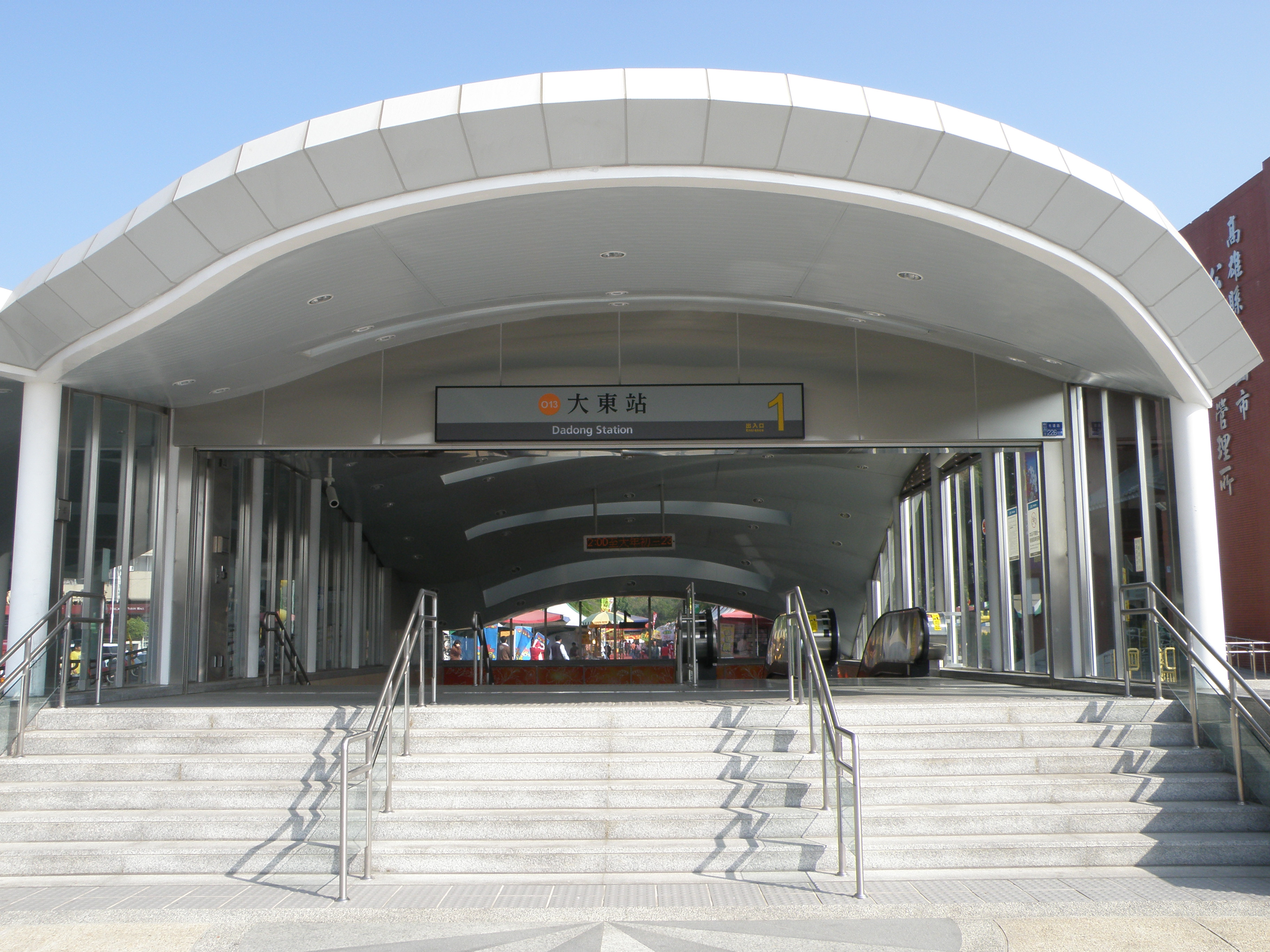 Exit No.1 of Dadong Station, Kaohsiung Mass Rapid Transit.